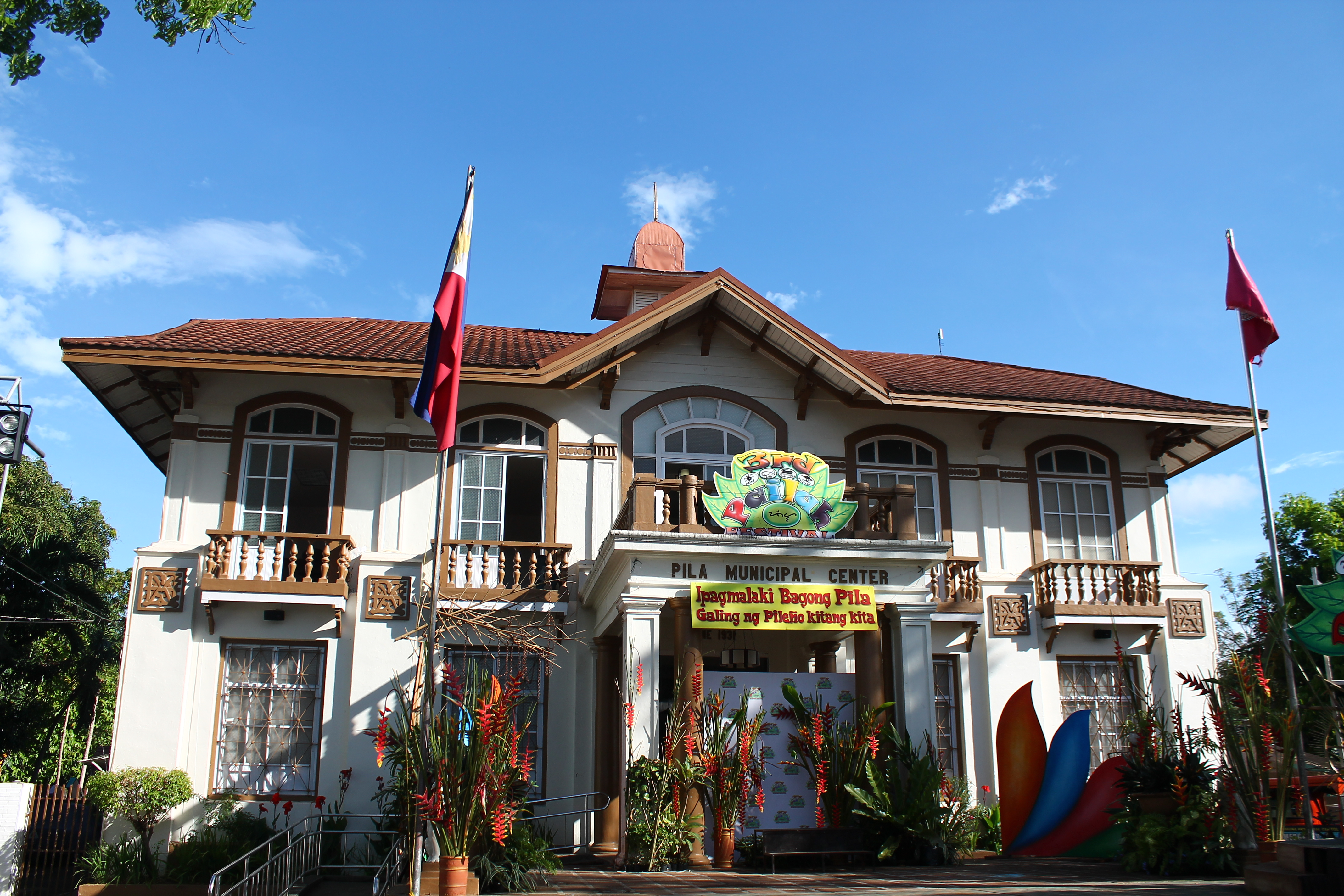 The Municipal Hall of Pila, Laguna